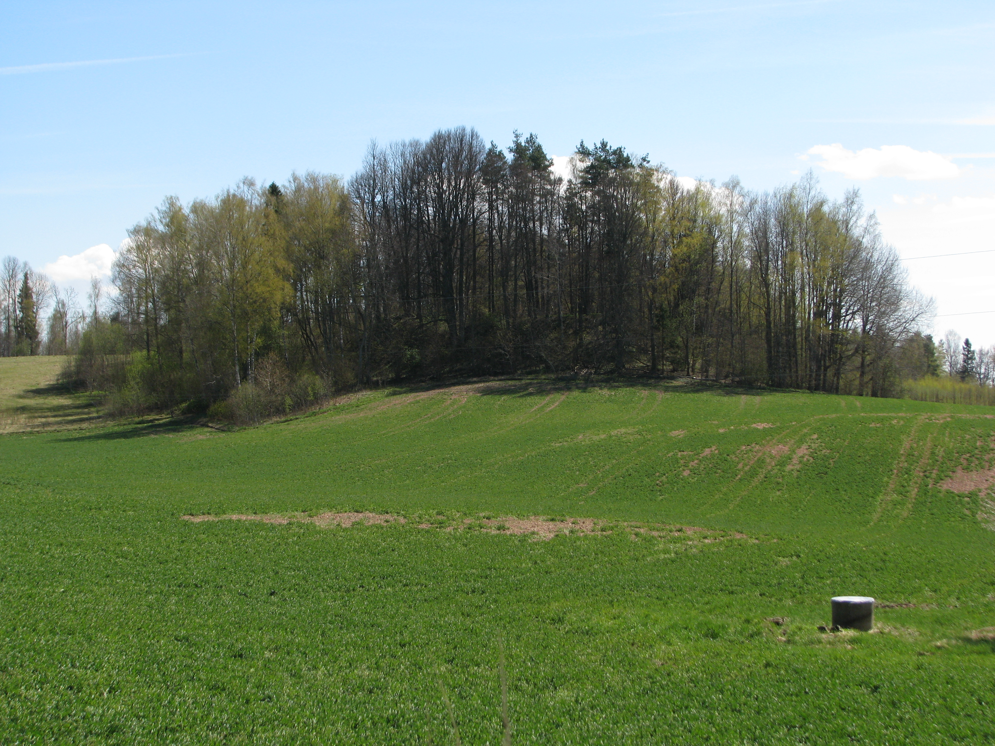 Vecmoku hillfort, Tukums municipality Ventspils